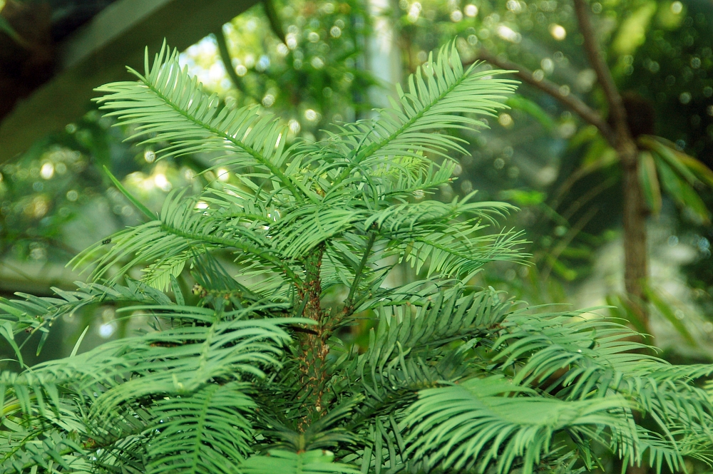 Wollemia nobilis, Palmengarten, Frankfurt/Main, Germany